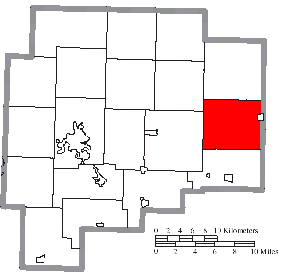 Map of the municipal and township boundaries of Guernsey County, Ohio, United States, as of the 2000 census, with the location of Oxford Township highlighted. Township borders are shown only in unincorporated areas in order to differentiate incorporated and unincorporated areas more clearly.